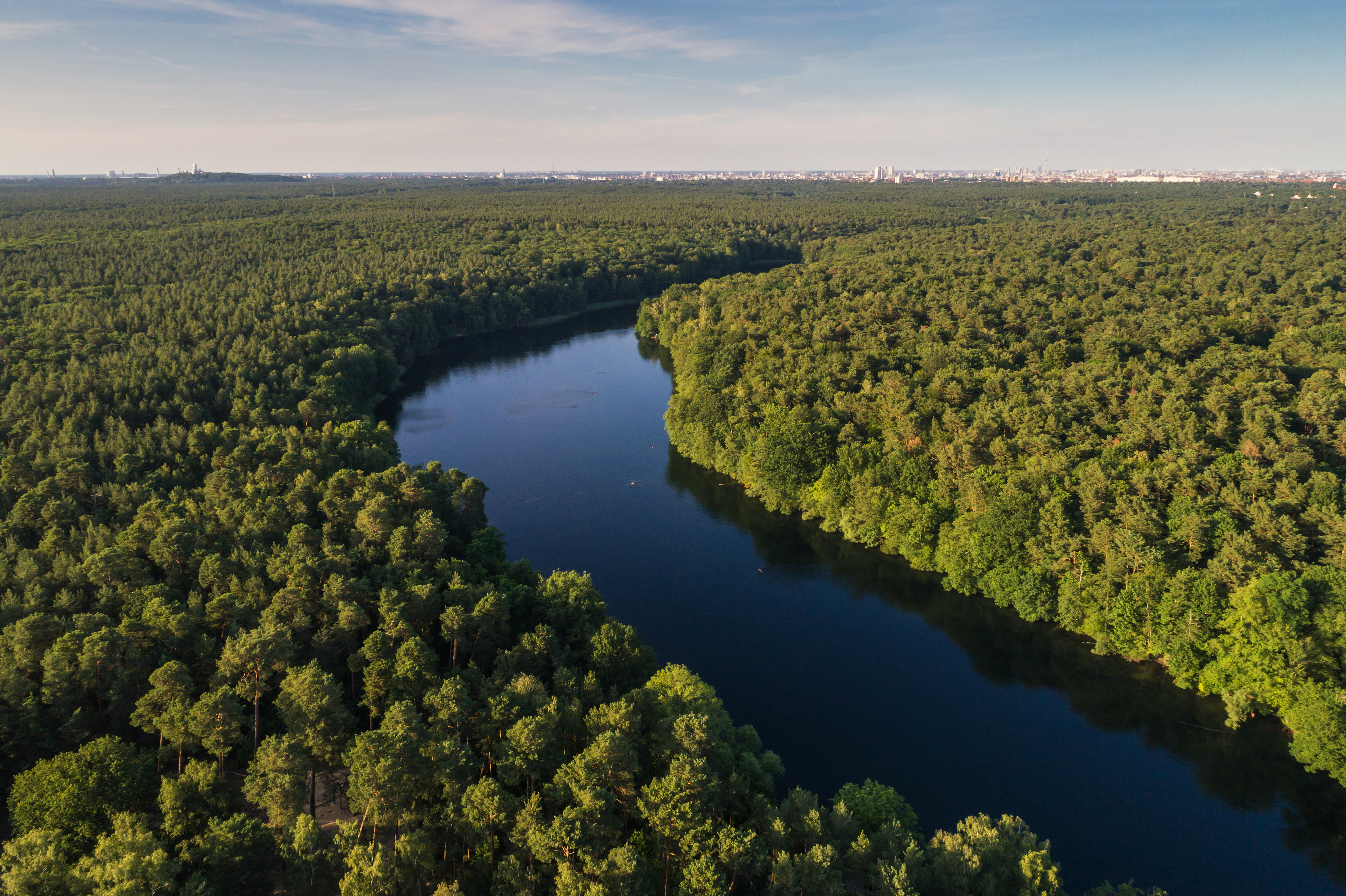 Aerial photo of Krumme Lanke in Berlin (Germany)